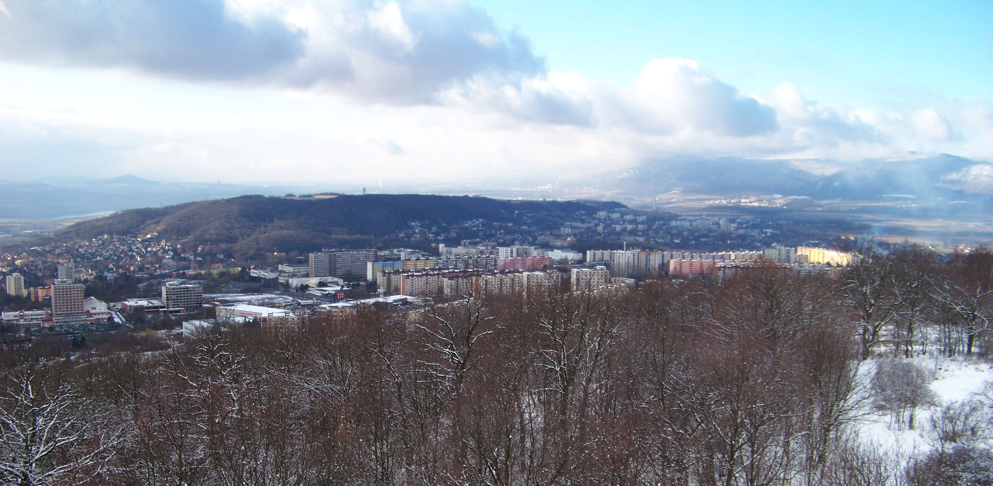 Ústí nad Labem, the Czech Republic. A view from the observation tower Erbenova vyhlídka.